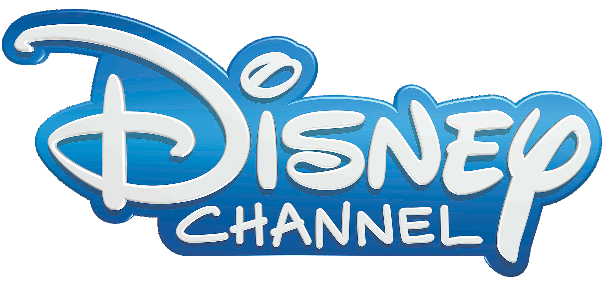 This is the station logo of the new Disney Channel since January 17th 2014.